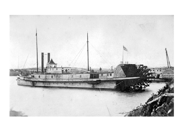 Photo taken 1864 Photograper Unknown BC Archives #A-08670 [1]